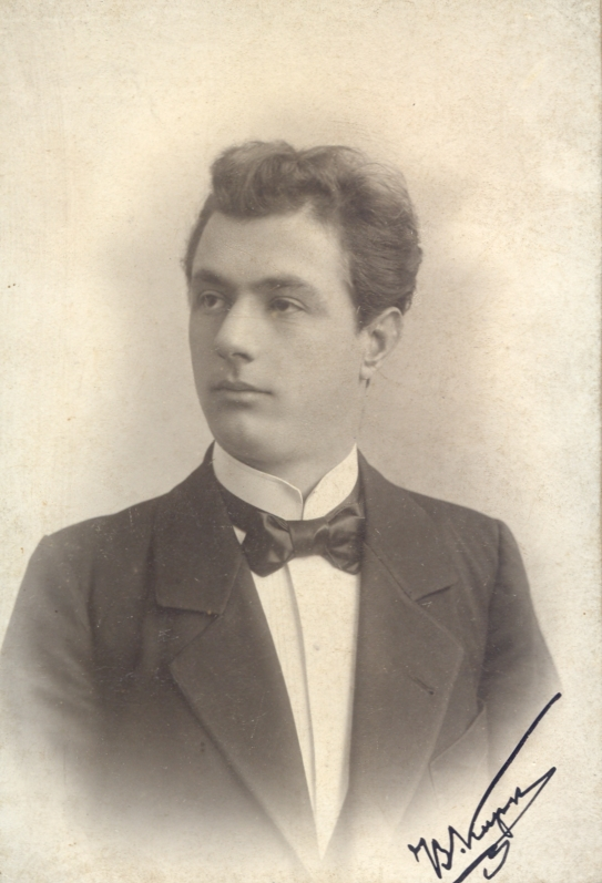 Bulgarian actor Vasil Kirkov (1870-1931). A photo with an autograph in the archive of the actor Sava Ognyanov